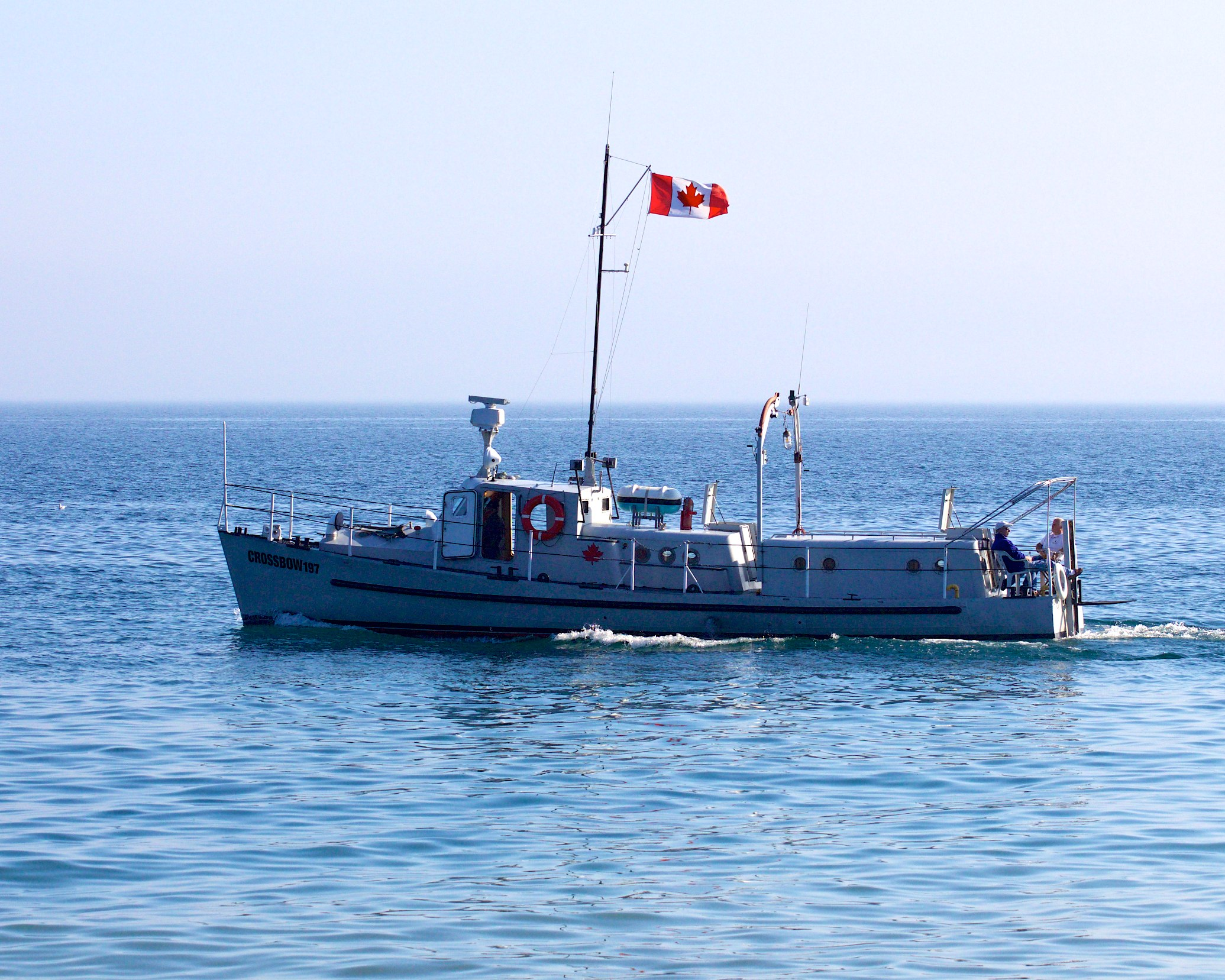 Built in 1954 by Russel Brothers Ltd. of Owen Sound, Ontario. Was originally a tender and then later used as a training vessel by the Canadian Navy. Class: Crossbow Type: Patrol Light LOA: 14.6m Beam: 3.7m Draft: 1.2m Displacement: 59 tonnes Max Speed: 7 kt